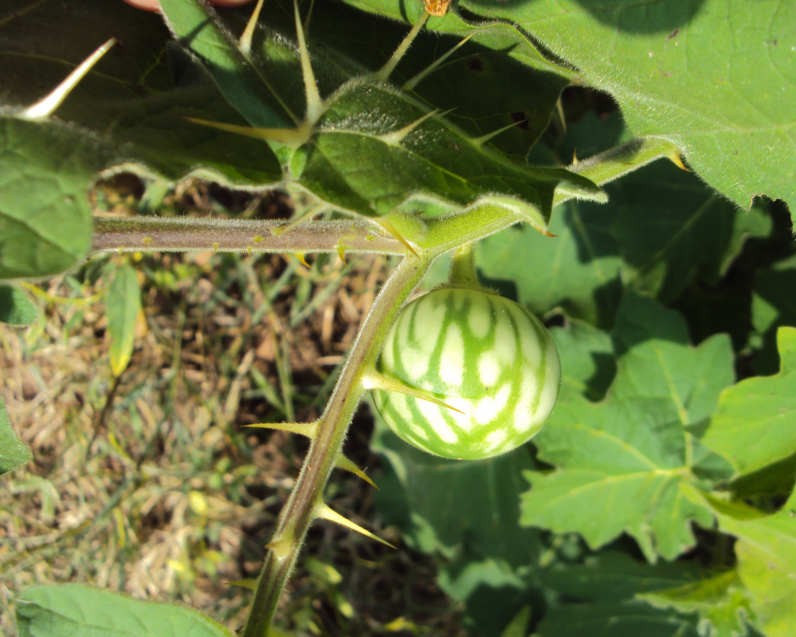 Solanum aculeatissimum